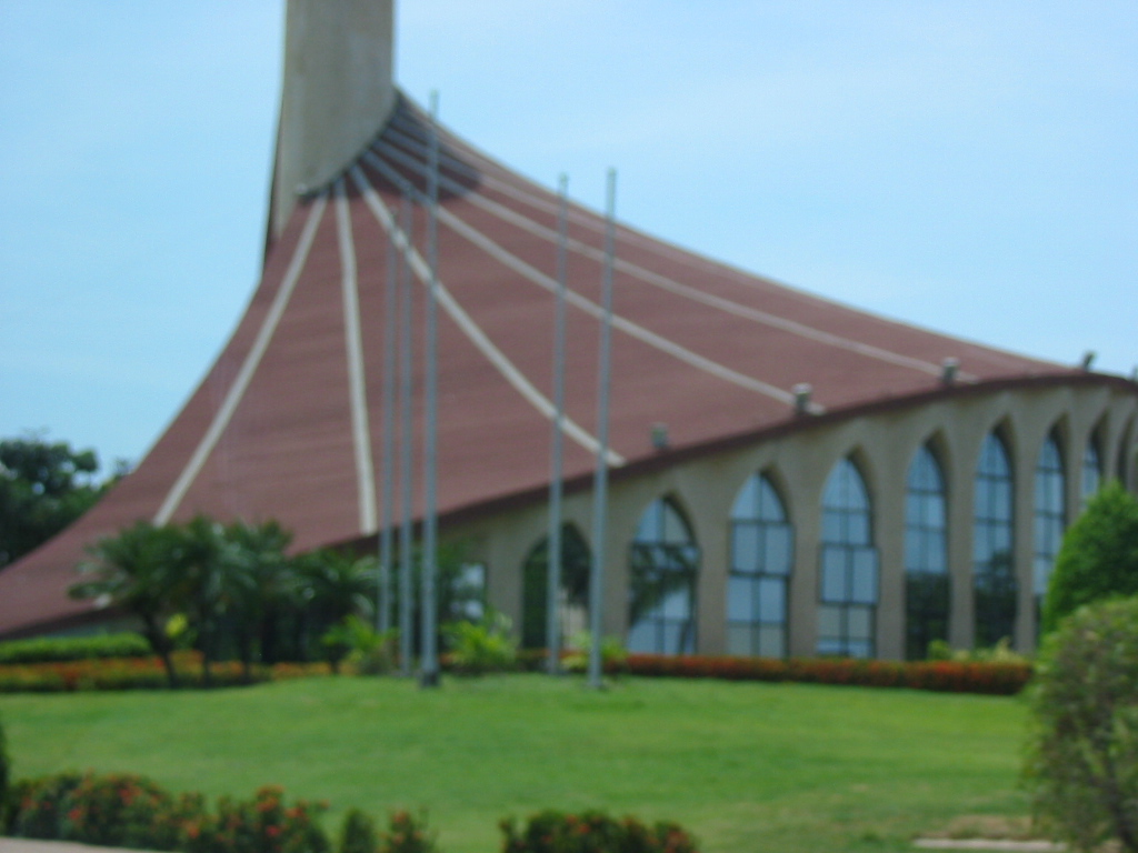 An oddly shaped church, with a spyral base, built by father Ocando (Chief of the Ninos Cantores association). It is located in southern Maracaibo (sector San Francisco), near Gran Hotel Maruma, at the end of Los Haticos road.